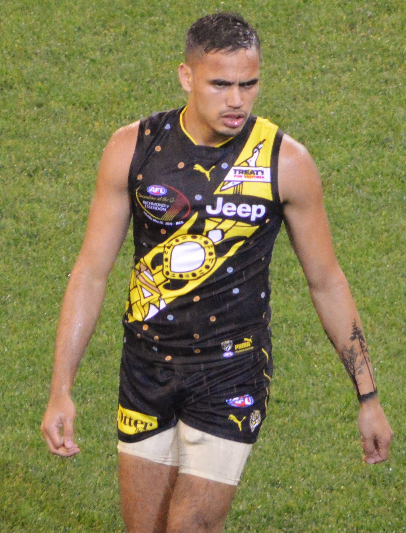 Sydney Stack with Richmond in the round 10 Dreamtime at the 'G AFL match against Essendon at the MCG on 25 May 2019.